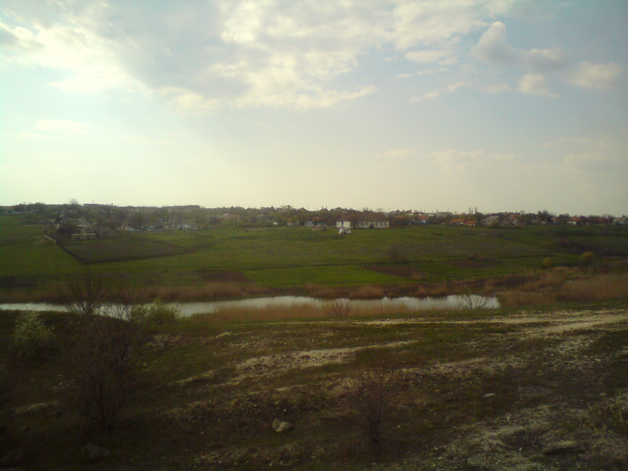 Novogrigoryvka, Mykolaiv Raion, Mykolaiv Oblast